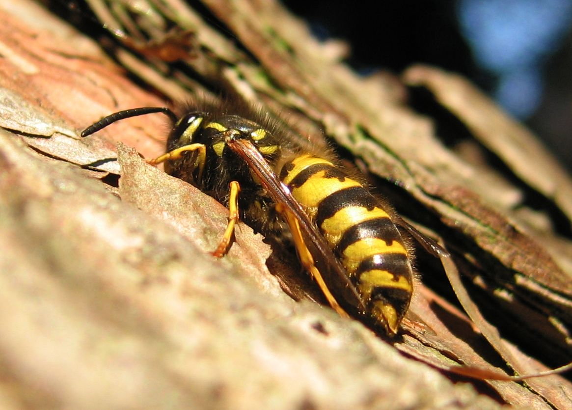 Common Wasp (?) in profile